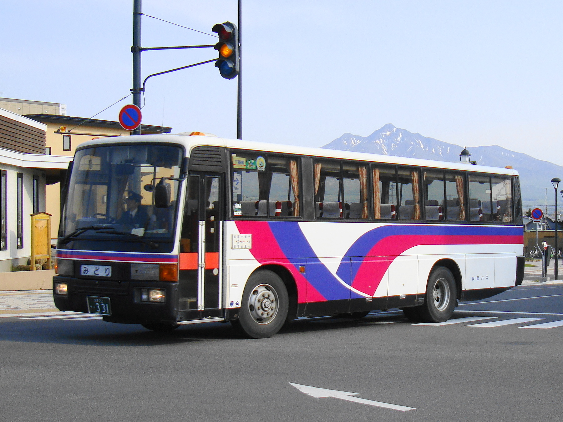 Shiretoko-Shari Station to Kiyosato, Midori Station